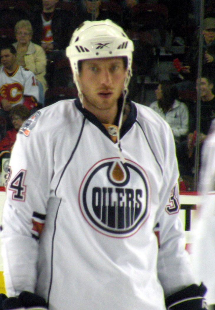 Edmonton Oilers forward Fernando Pisani during warmup prior to a National Hockey League game against the Calgary Flames in Calgary.